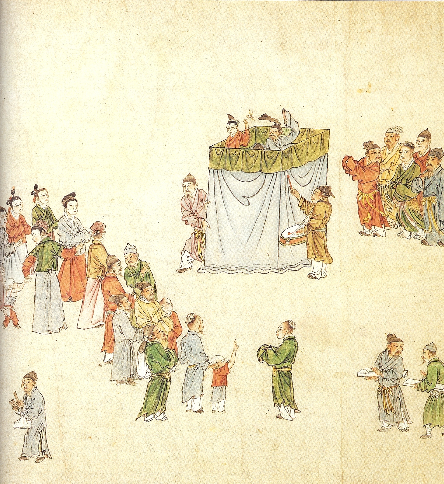 Story-tellers and puppeteers in China entertained city-dwellers with much the same stories that playwrights worked into their polished dramatic texts. Detail from a fourteenth-century handscroll in ink and colour on paper.